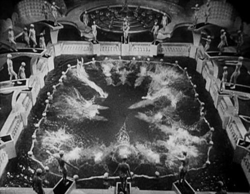 Frame from public domain trailer for Warner Bros. 1933 film Footlight Parade showing vertical wide shot of swimmers diving into pool. 1st of 2.